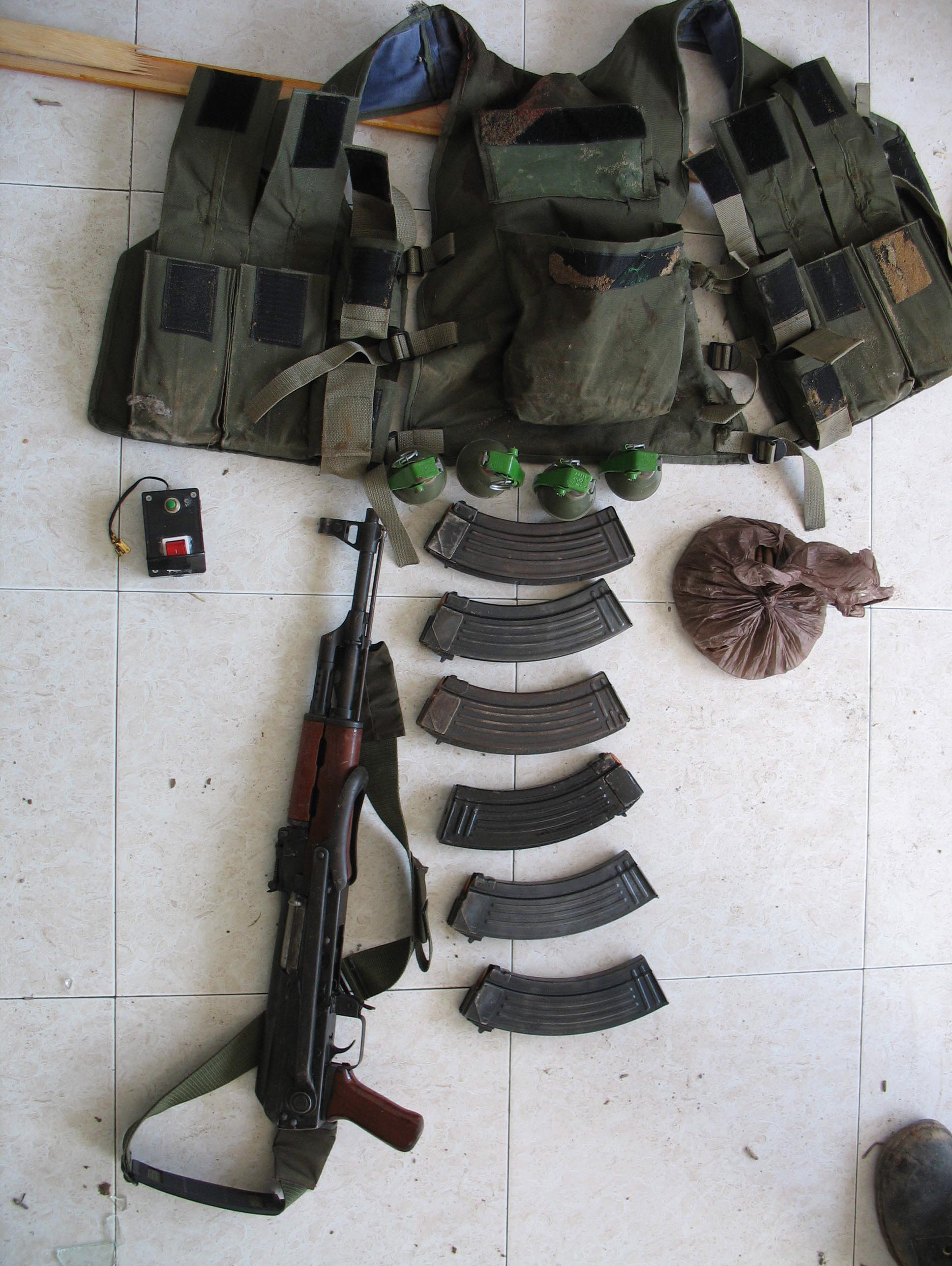 January 8, 2009 During Operation Cast Lead in the northern Gaza Strip, Golani Brigade forces uncovered a weapons cache.